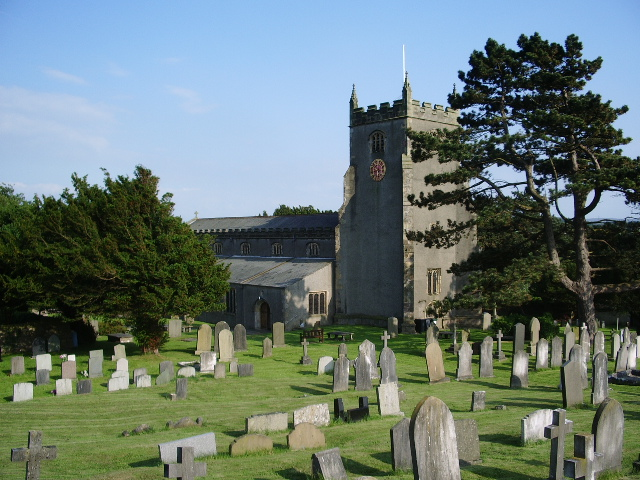 The Parish Church of St Oswald, King and Martyr, Warton, Carnforth